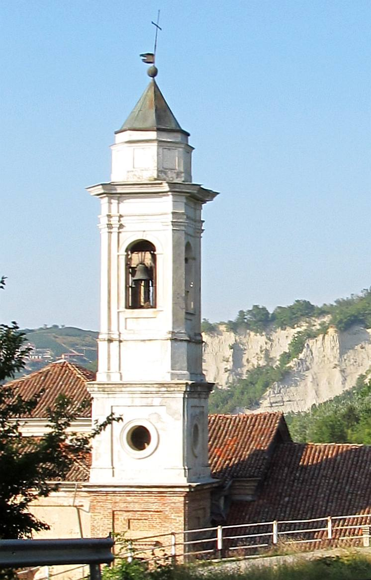 Clavesana (CN, Italy): church tower